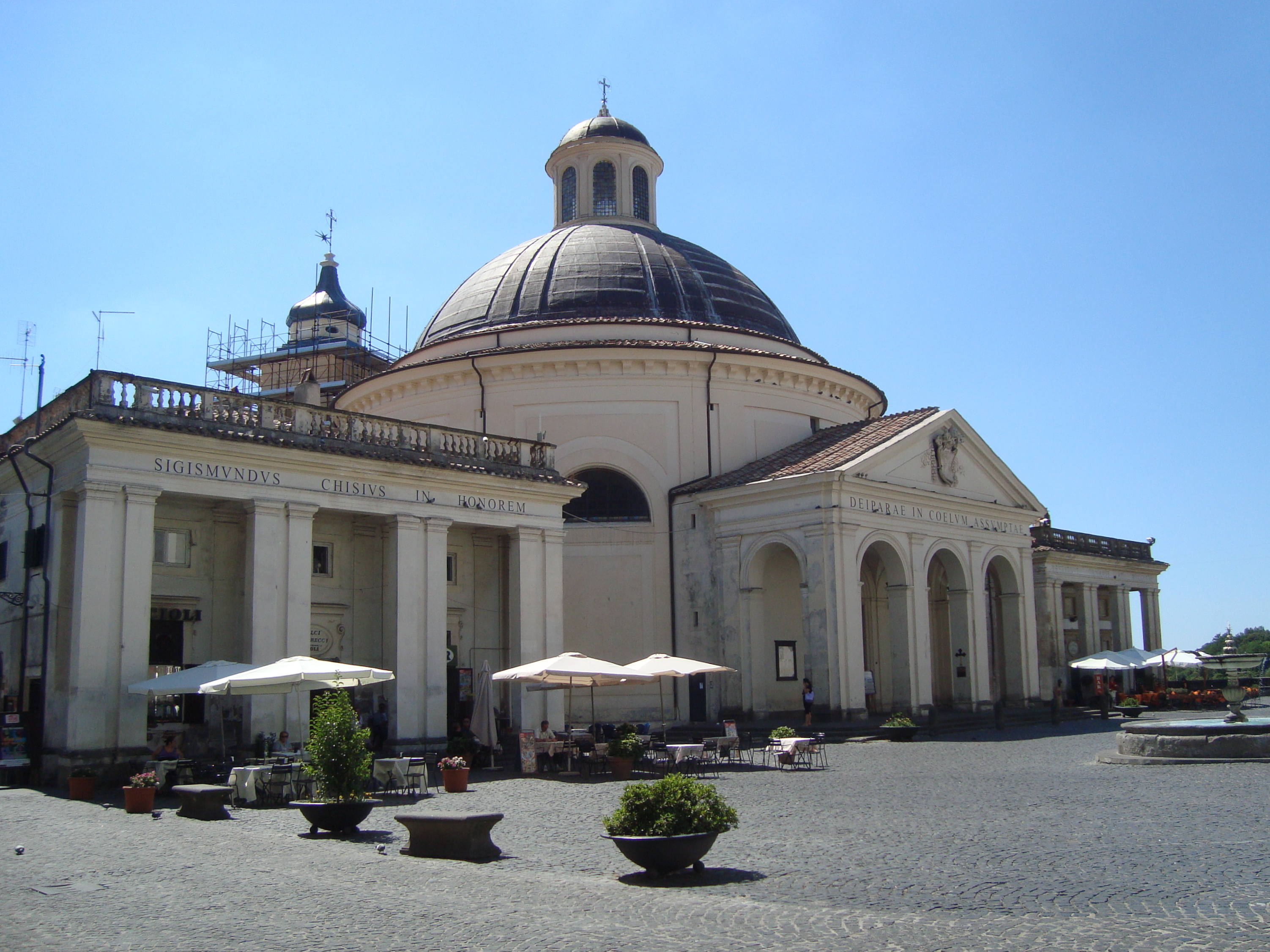 The church Santa Maria Assunta in Ariccia, erected in 1664-1665, on a project by Gian Lorenzo Bernini